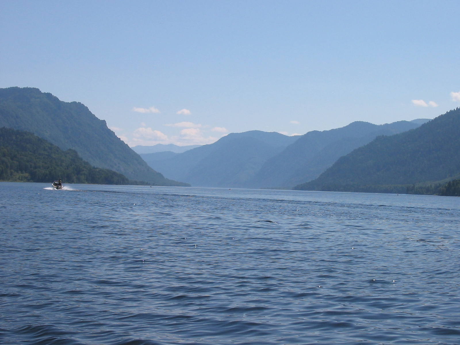 Teletskoe lake in Altaiskiy kray (Russia)